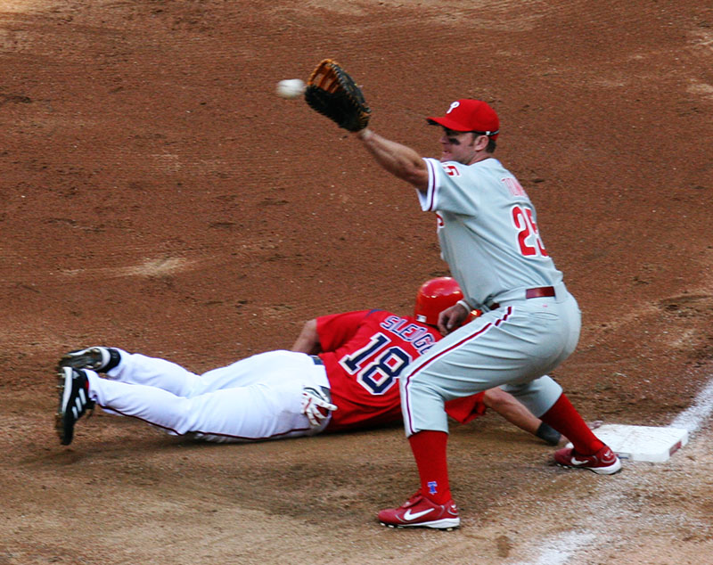 Baseballer Terrmel Sledge making it back on base just in time.